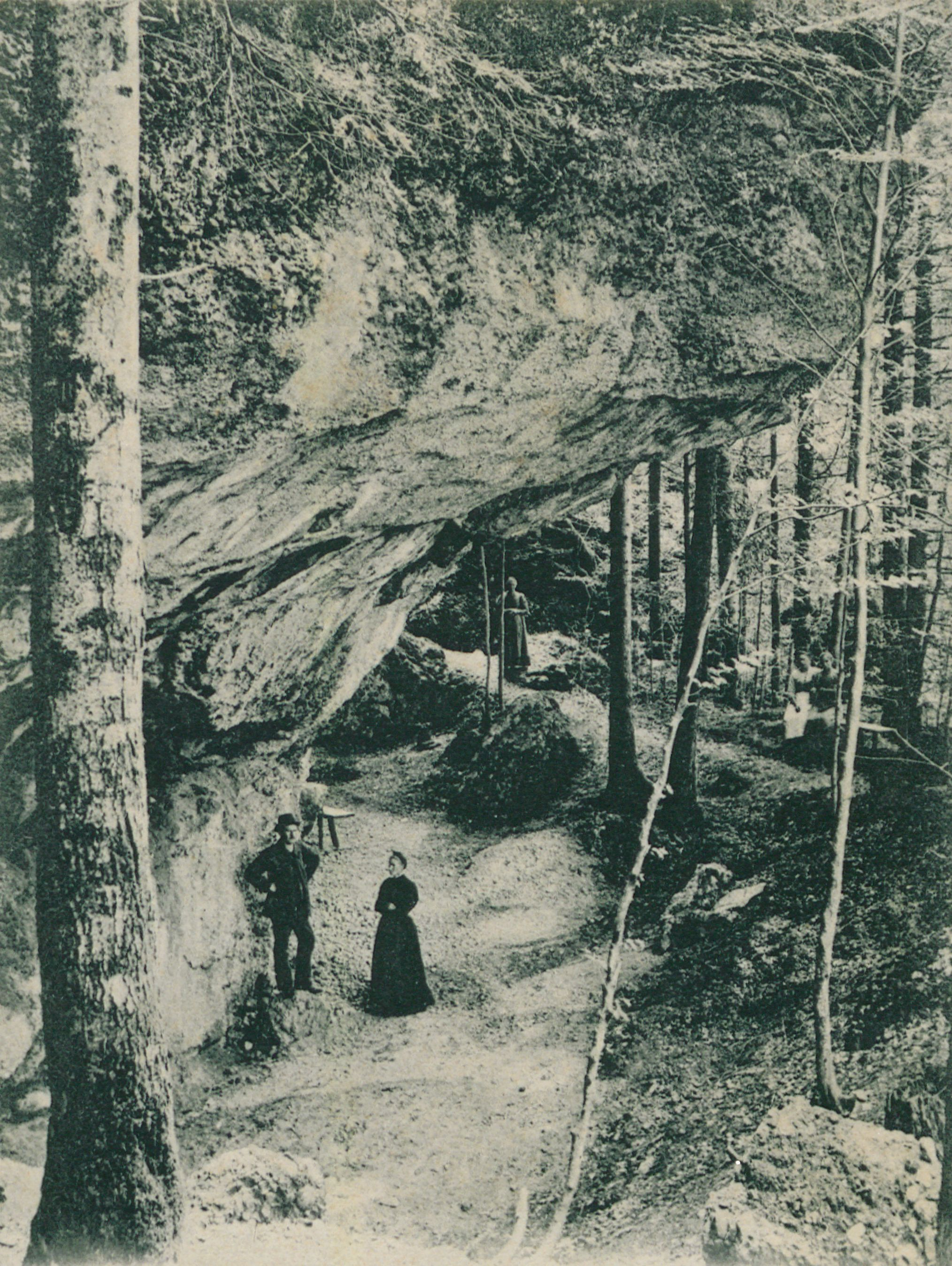 Rockfall site and natural monument Rappenfluh in the municipality of Hittisau in the Bregenzer Forest in Vorarlberg (Austria).